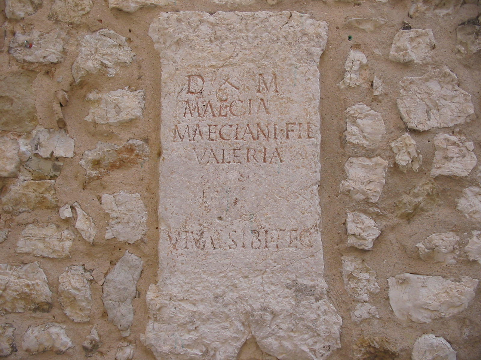 Latin inscription